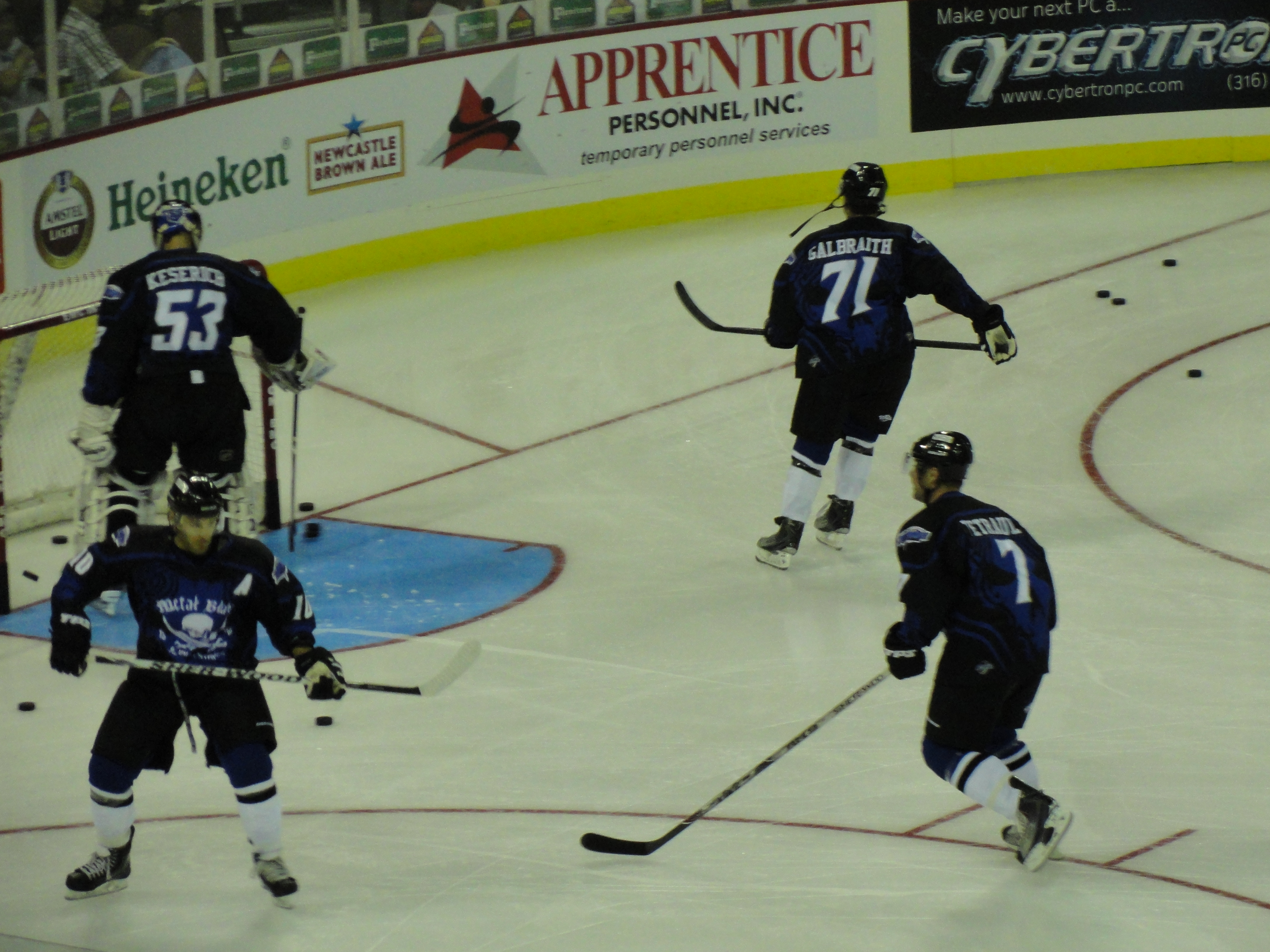 The Wichita Thunder in pregame warm ups before a game on October 16, 2010.